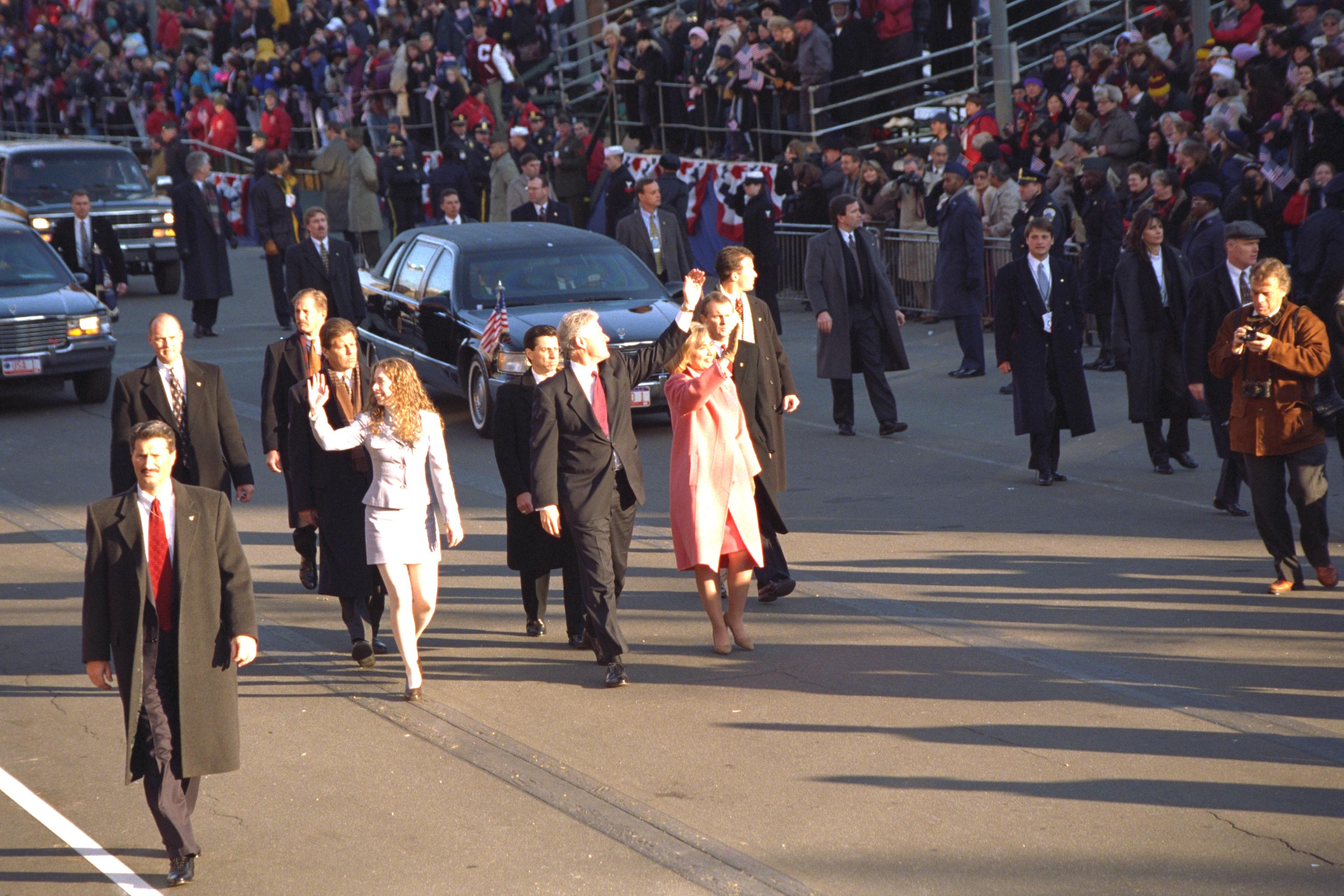 Creator/Photographer: Smithsonian Photographer Medium: C-type print Culture: American Date: 1997 Persistent URL: [1] Repository: Smithsonian Institution Archives/Smithsonian Photographic Services Accession number: B5CDACDC98F1441C